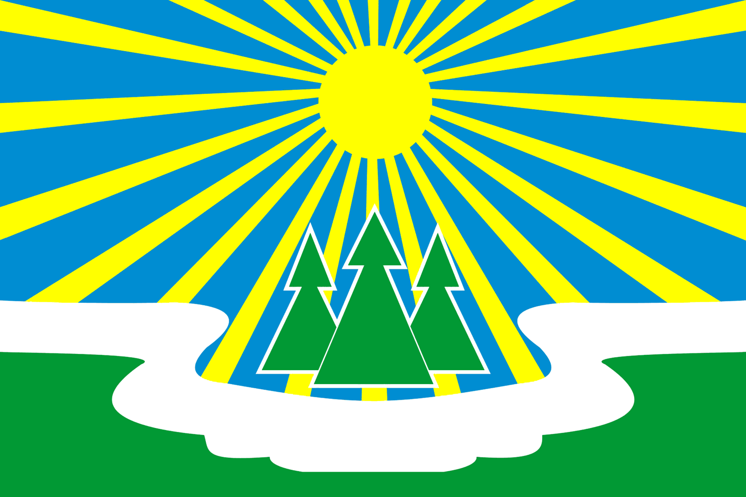 Flag of Svetogorskoe urban settlement, Leningrad Region, Russia